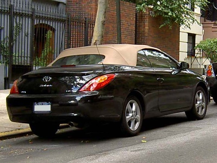 The second generation of Toyota Solara convertible, photographed in New York City